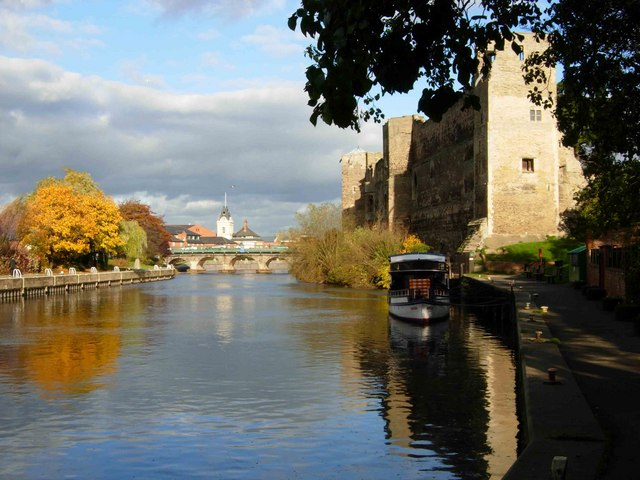 River Trent, Newark on Trent Seen from Town Lock, with the ruins of the castle on the right.